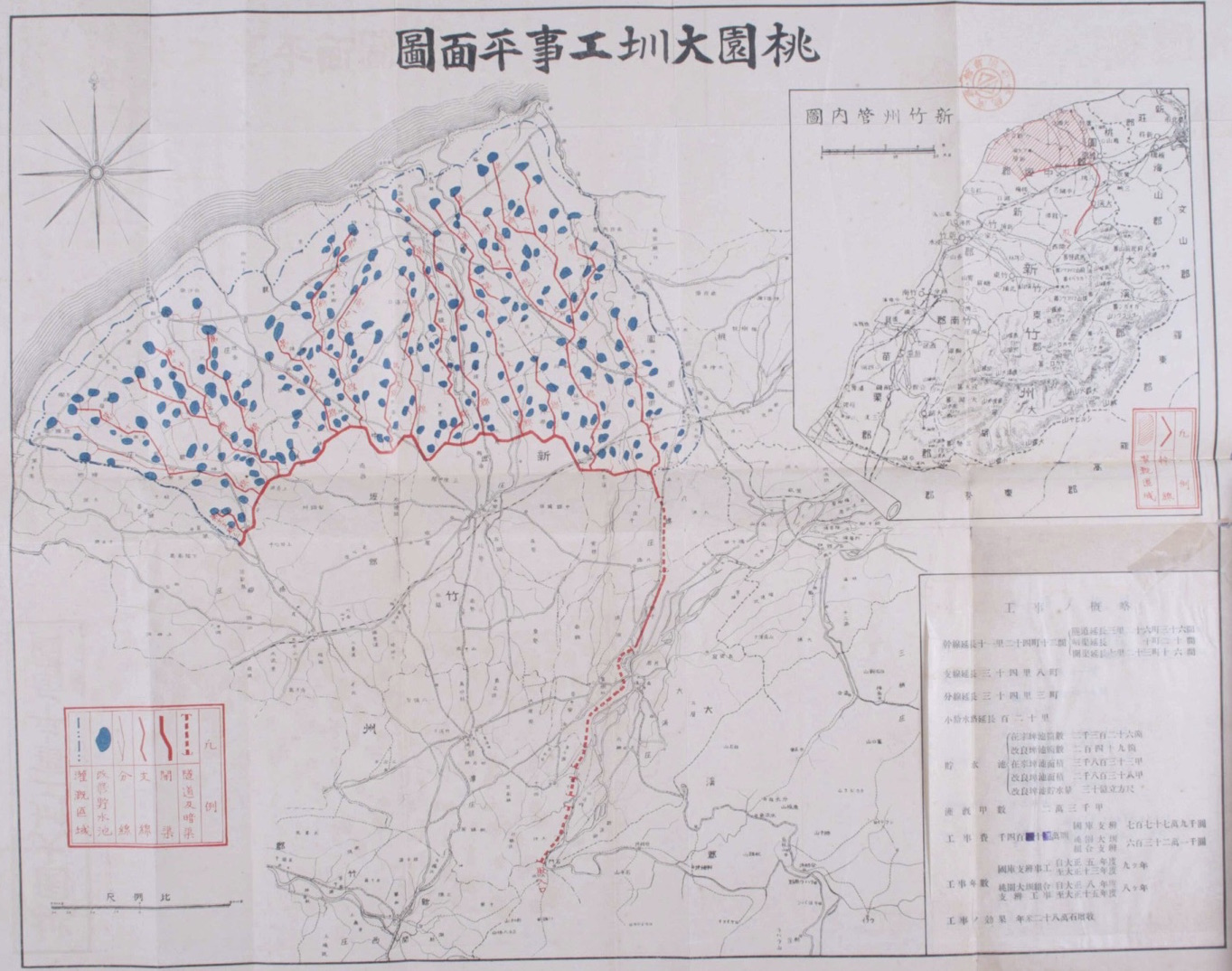 Old map of Taoyuan Canal (1924)